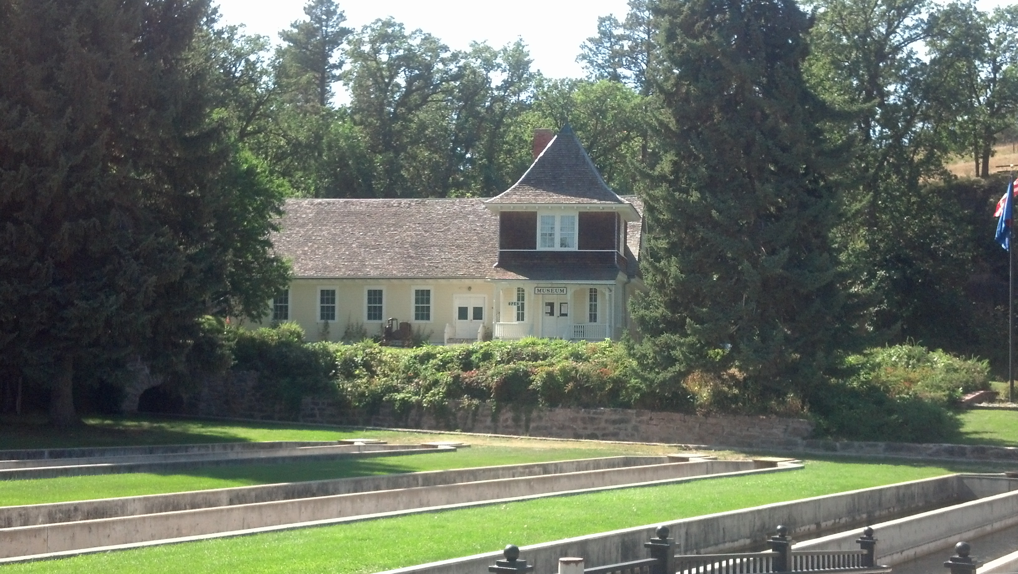 The Von Bayer Museum of Fish Culture at the D.C. Booth Historic National Fish Hatchery in Spearfish, South Dakota.